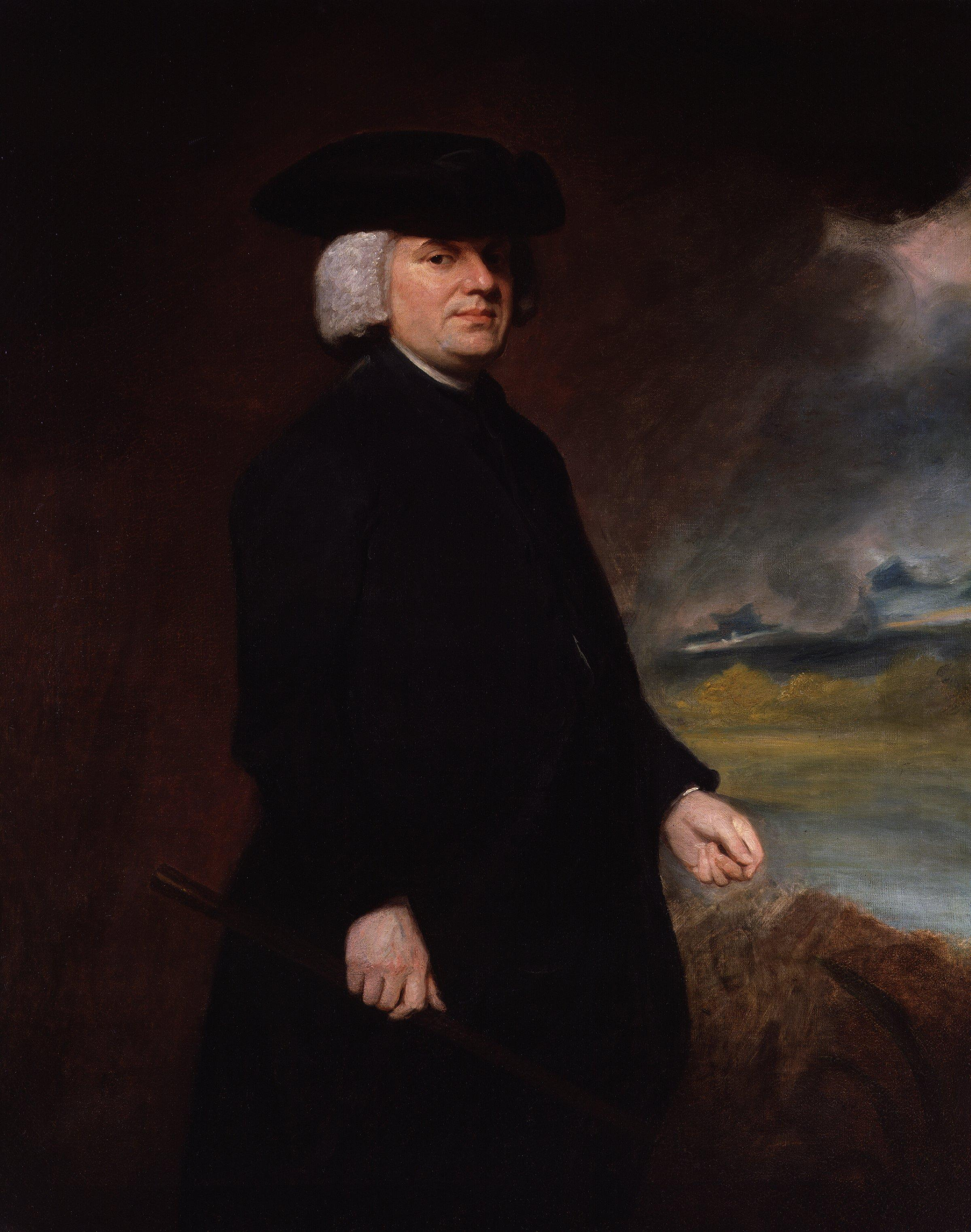 William Paley, by George Romney (died 1802). All images in this batch have been confirmed as author died before 1939 according to the official death date listed by the NPG.